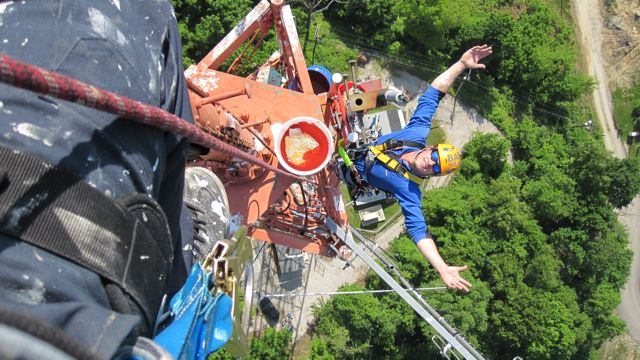 Rope tech from Base Painters painting the Kentucky Educational Television tower (WKAS?) in Ashland, Kentucky